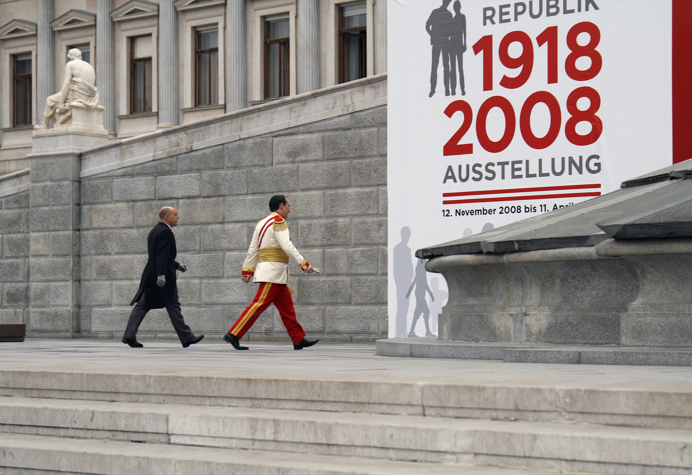 Robert Palfrader as "Emperor Robert Heinrich I." and Rudi Roubinek as "Mayor of the Palace Seyffenstein", as known from the tv-series Wir sind Kaiser, on November 12th 2008, the 90th anniversary of Austria's change from monarchy to republic, on the way to the Austrian Parliament Building in Vienna.